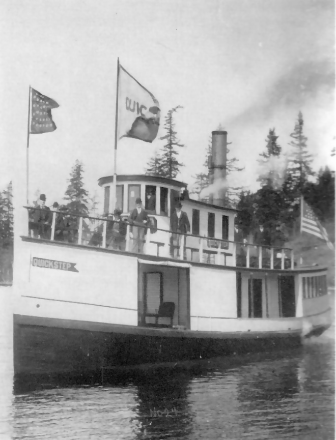 Steamer Quickstep.